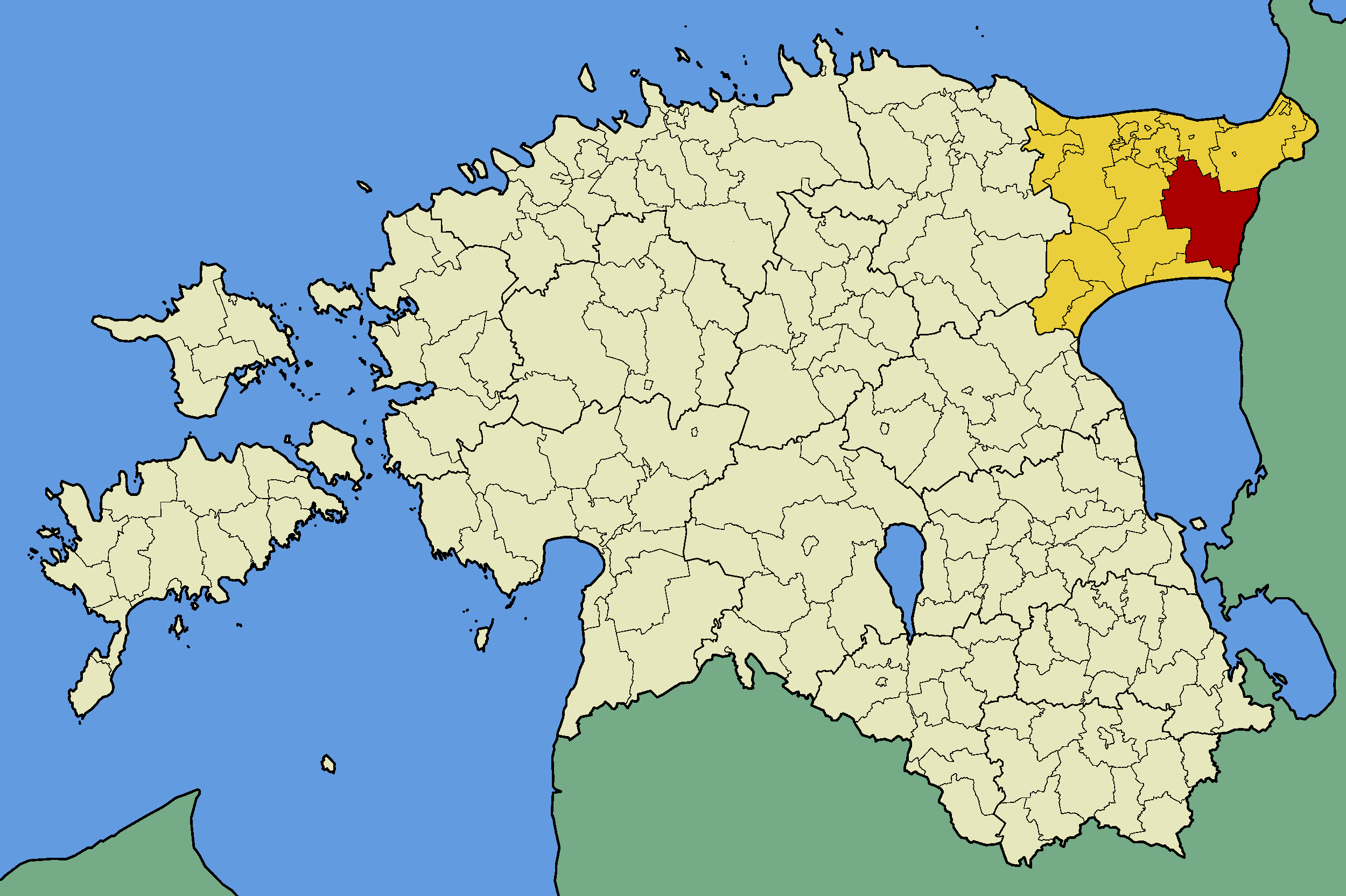 Map of Estonia with borders of municipalities (parishes). Ida-Viru county and Illuka municipality emphasized.